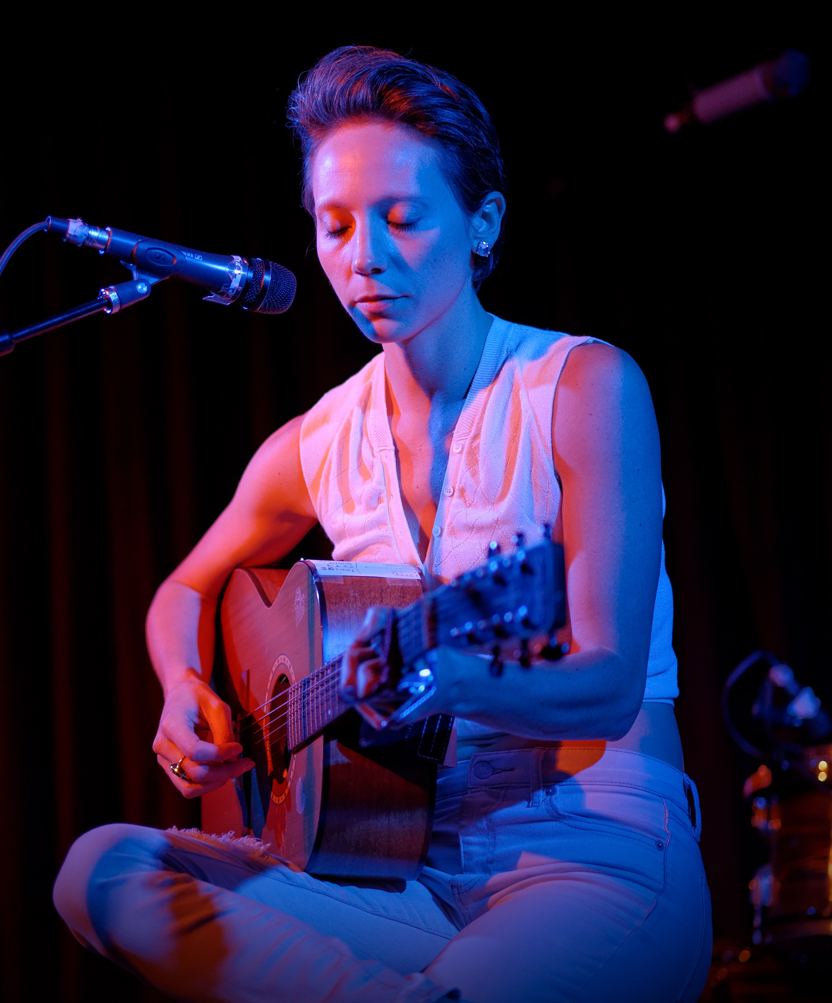 Jaymay at Hotel Cafe in 2015